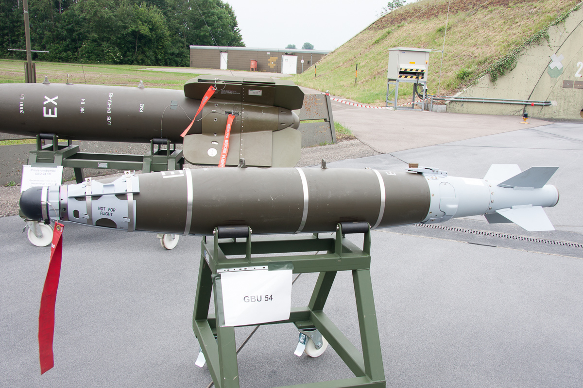 German Airforce GBU-54. Laser/GPS guided.